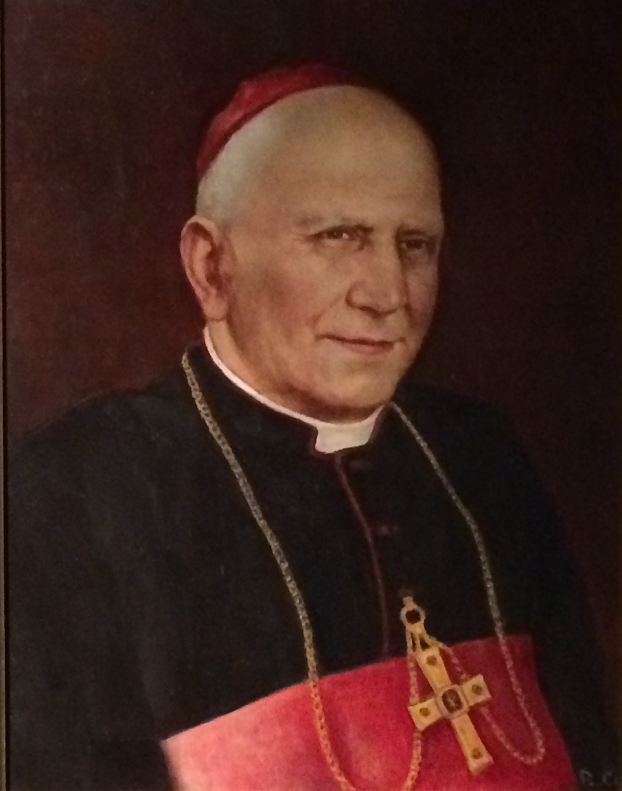 Painting of Bishop of Ghent, inside the Saint Baafs Cathedral, north Belgium.